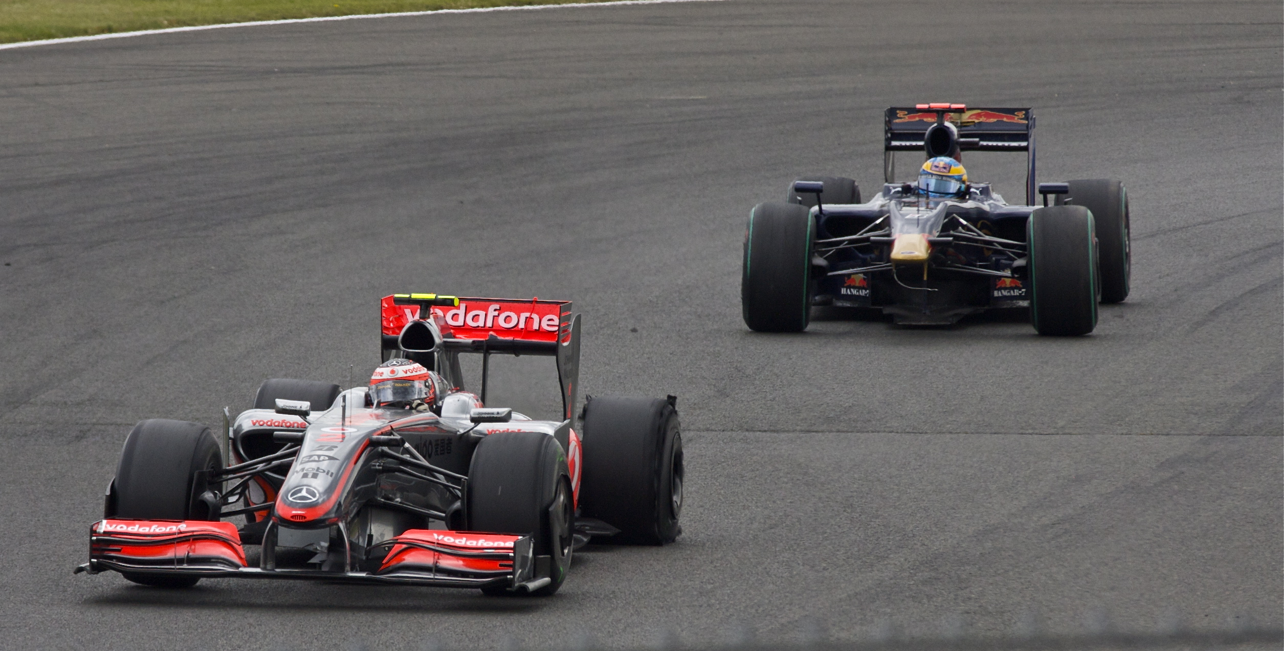 Heikki Kovalainen (front) and Sébastien Bourdais at the 2009 British Grand Prix, Silverstone, UK.